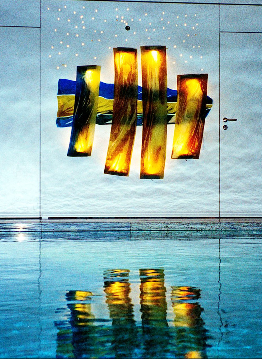 Lighted installation in private indoor swimming pool